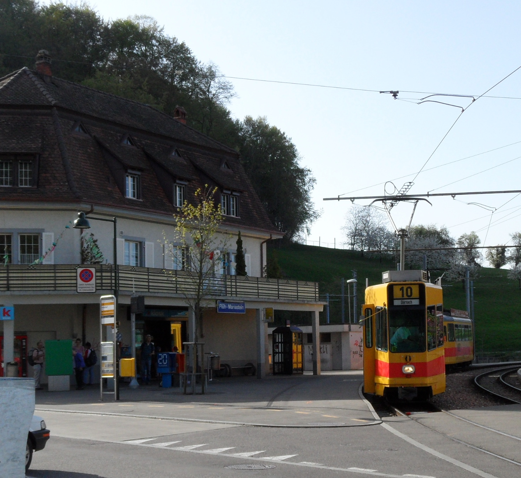 BLT (Baselland Transport) station of Flüh-Mariastein, Canton of Solothurn, Switzerland, located on territory of Bättwil community.